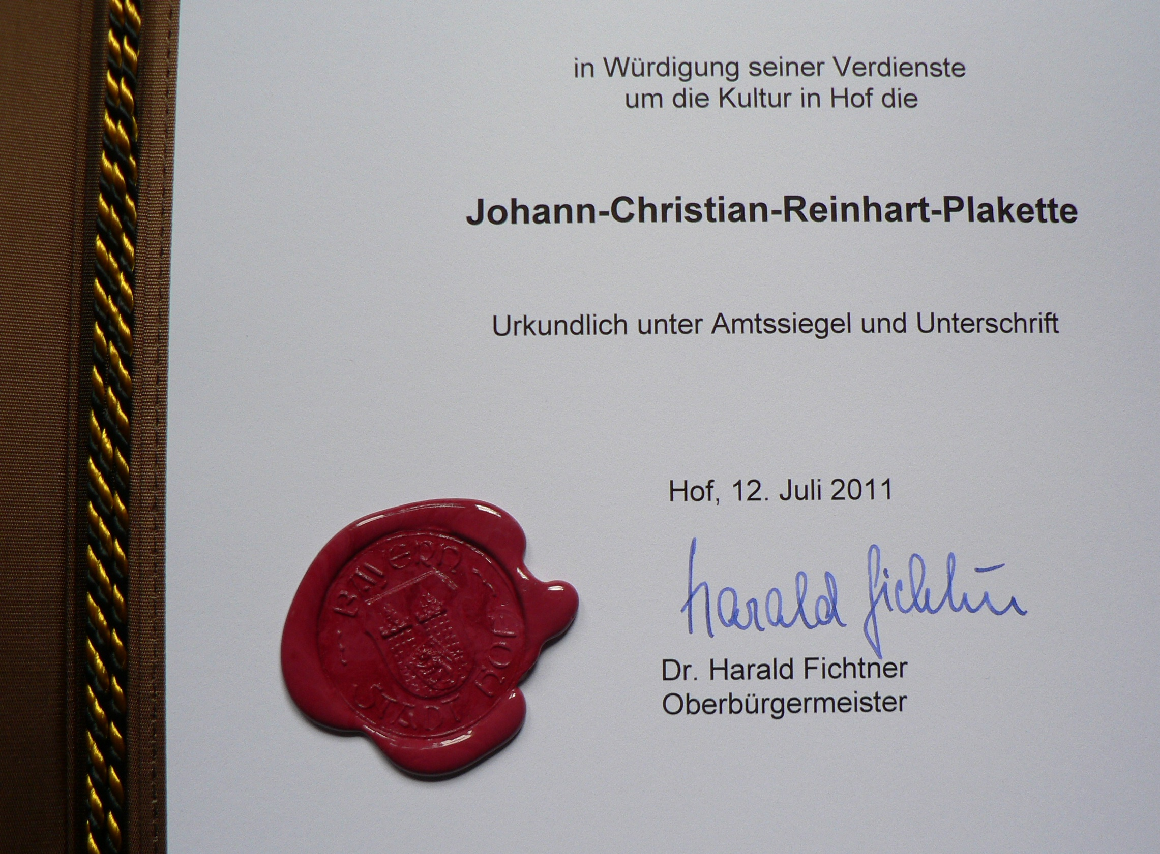 own file